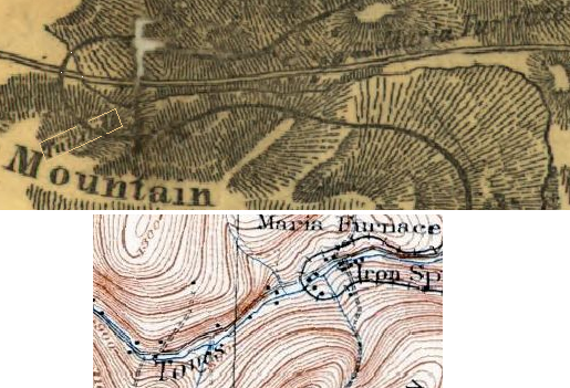 The 1839 survey of the Tapeworm Railroad route (top) with excavations (tracks weren't completed) included a switchback from Maria Furnace westward along the Nichols Gap Road. The route was to loop west of the location where the Nichols Gap Road crossed Toms Creek in a topographic gap between ~900 ft (270 m) levels (bottom). The survey map shows the 3 crossing points of the route, the road, and the creek (white pixels at top, with misaligned hachures to the northeast) were at 3 distinctly different points. At the easternmost of the 3 points, the railroad company built a single-arch stone bridge for the road over the creek. (The roadway bridge is often misidentified as being for the railway and--with the inaccurate term "viaduct"--as having multiple arches.) In addition to the never-built Tapeworm Railroad trestle to cross the gap west of the roadway bridge, a Tapeworm Railroad tunnel was planned nearby (top, outlined) through a spur of Jacks Mountain. In 1888-1889, the "Western Extension" was built by the Baltimore and Harrisburg Railway (bottom) east of the gap, crossing Toms Creek at a lower elevation than the original Tapeworm Railroad route.